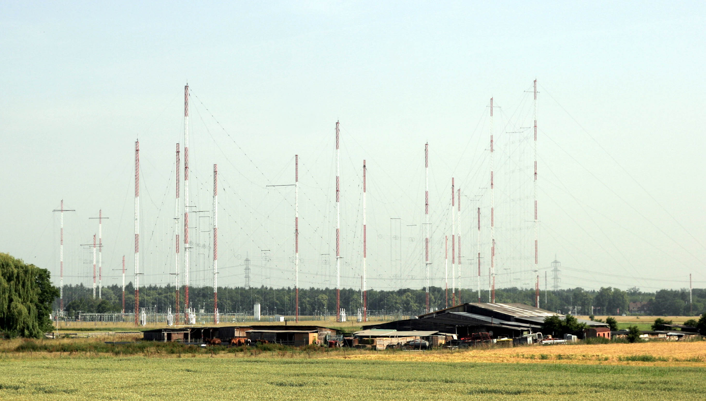 Shortwave transmitting station of the USA International Broadcasting Bureau near Biblis, Germany, used to broadcast programmes of Radio Free Europe/Radio Liberty into Eastern Europe and Russia. The antennas are mostly a type known as a curtain array, consisting of a rectangular array of wire dipole antennas suspended in front of a vertical reflector made of a "curtain" of parallel wires. They radiate a powerful beam of radio waves into the sky at a shallow angle just above the horizon, toward the target country. The radio waves are reflected back to Earth over the horizon by a layer of charged particles in the ionosphere.